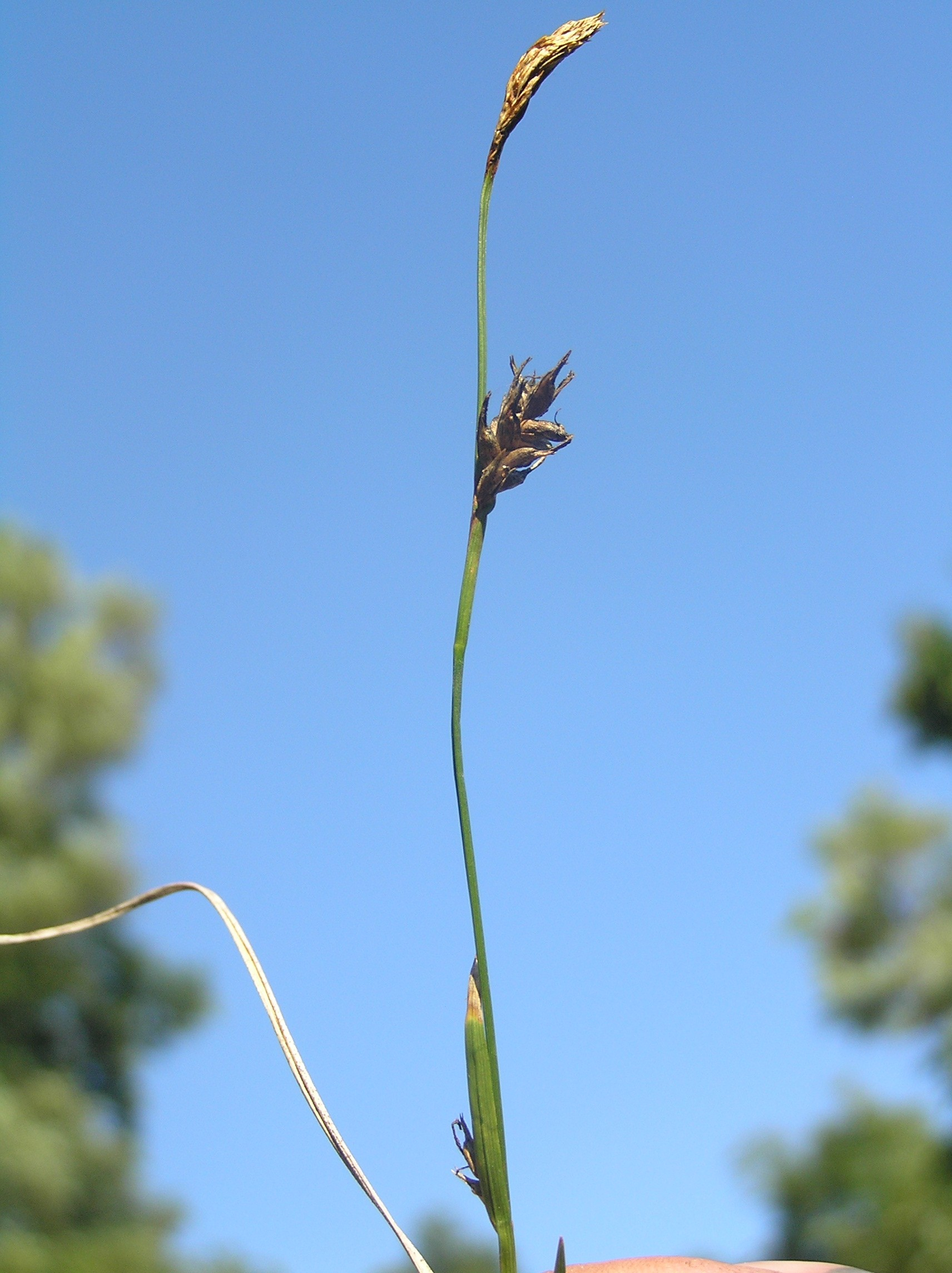 Carex michelii, Němčičky, Southern Moravia, Czech Republic